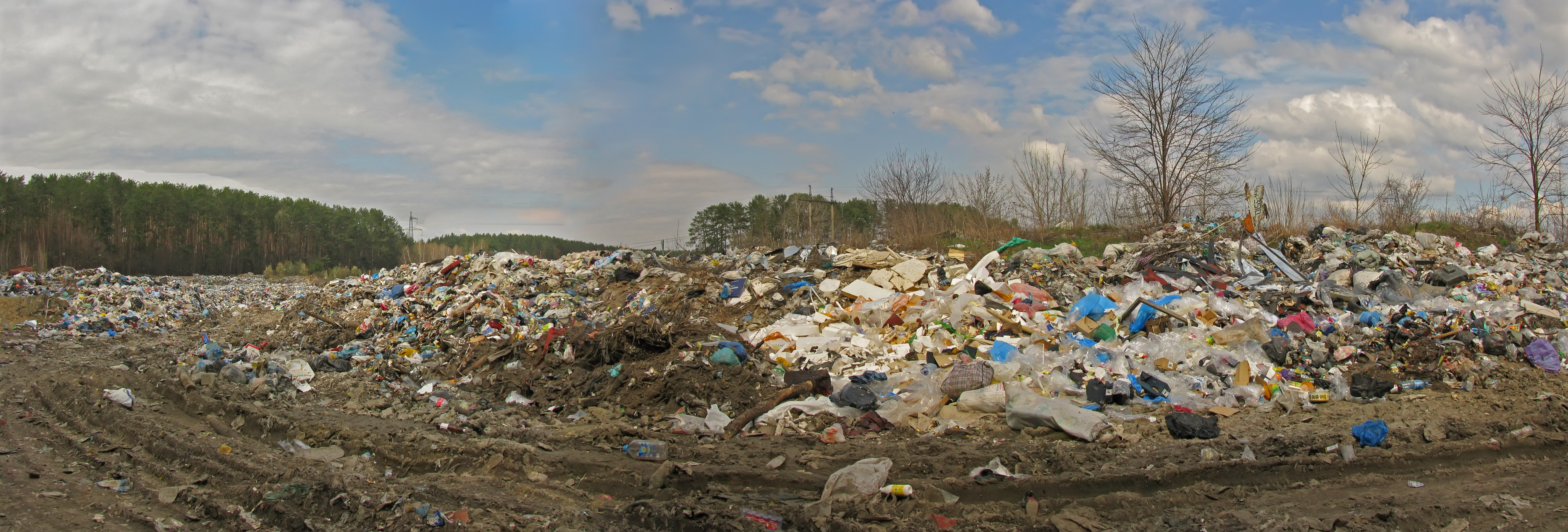 Landfill near New Petrovka near Kiev, in a protected forest